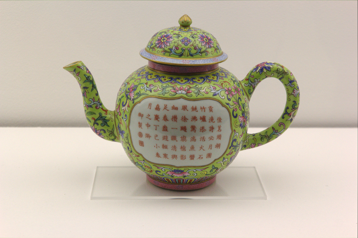 Chinese porcelain, Ming dynasty, porcelain, enamel overglaze (Ming dynasty is dubious - looks Qing